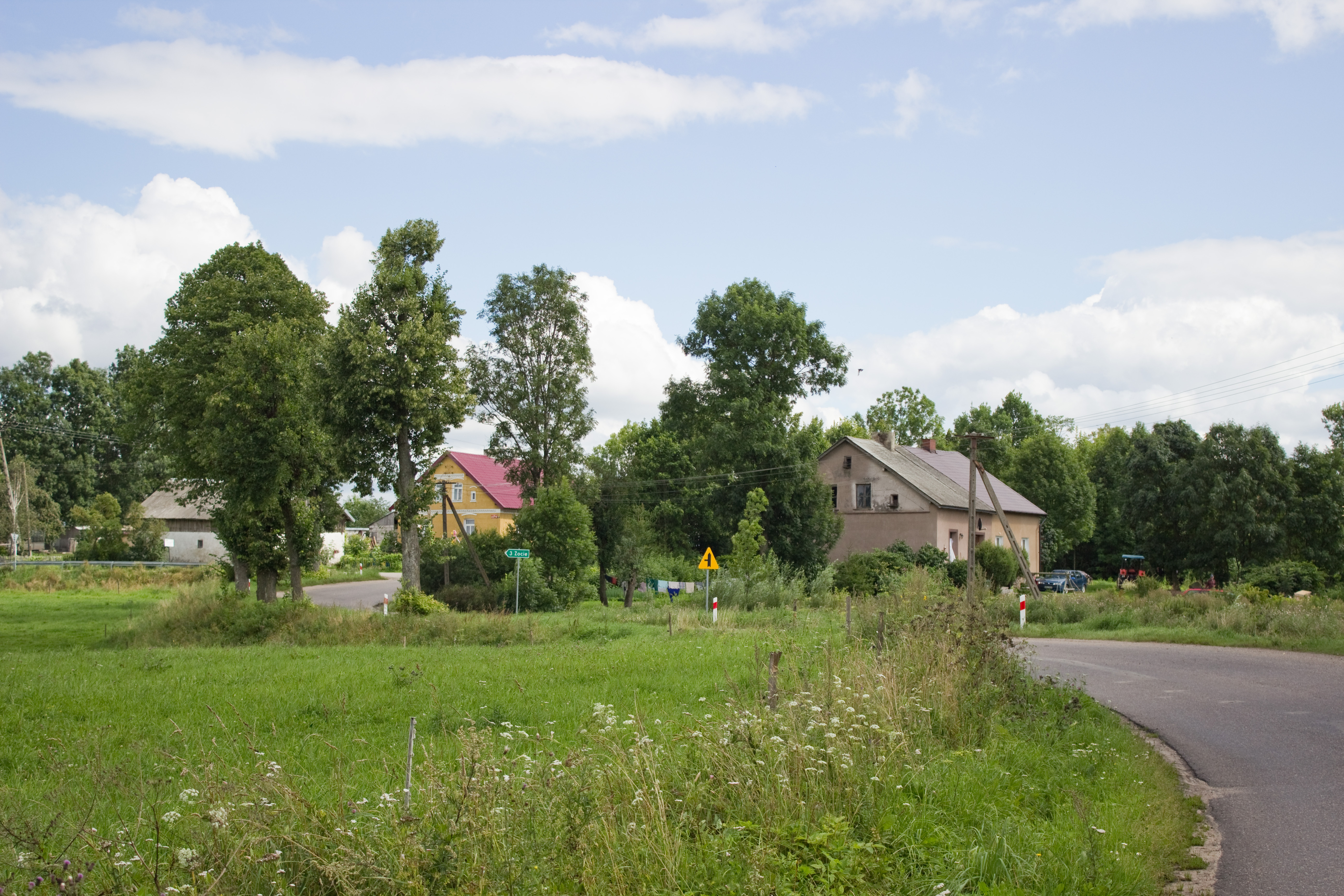 Zanie, gmina Kalinowo, powiat ełcki, Warmian-Masurian Voivodeship